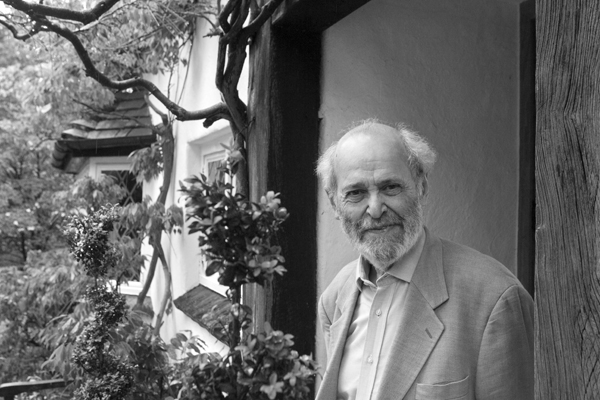 Géza Vermes (Hungarian pronunciation: [ˈɡeːzɒ ˈvɛrmɛʃ]; 22 June 1924 – 8 May 2013) was a British scholar of Jewish Hungarian origin—one who also served as a Catholic priest in his youth—and writer on religious history, particularly Jewish and Christian.